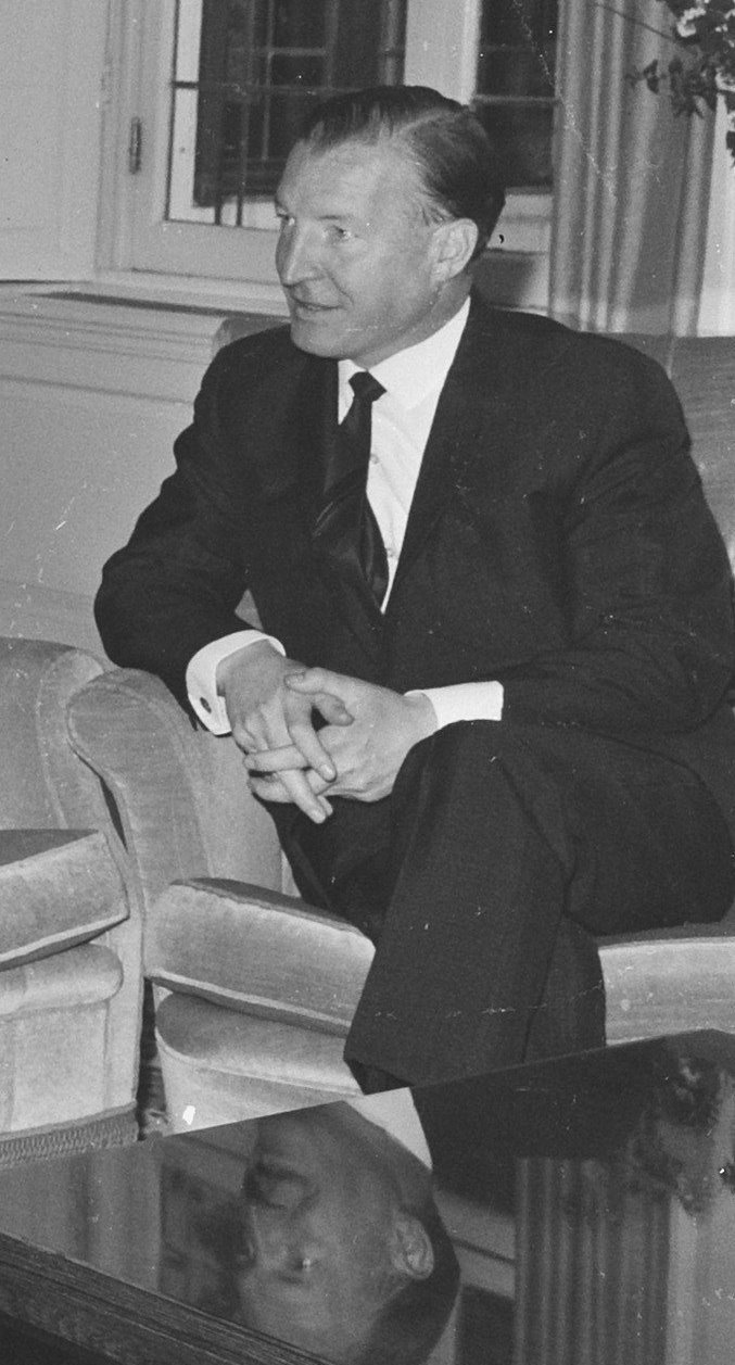 Minister Charles Haughey, June 1967